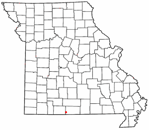 Modified from a map on Wikipedia.